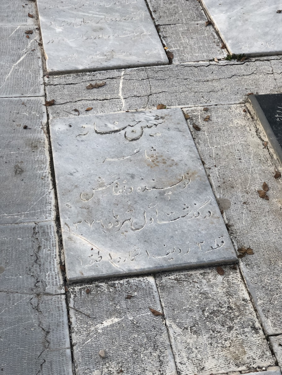 Emamzadeh Taher Cemetery